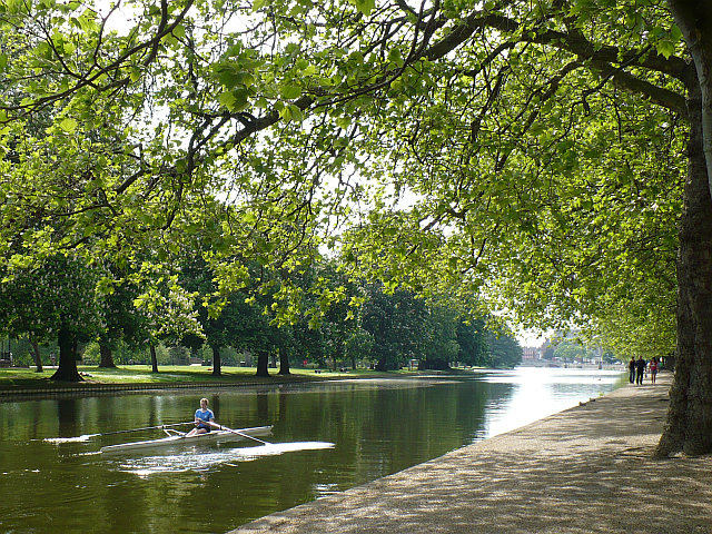 A sculler on the River Great Ouse The first of many rowers on a fine spring evening.